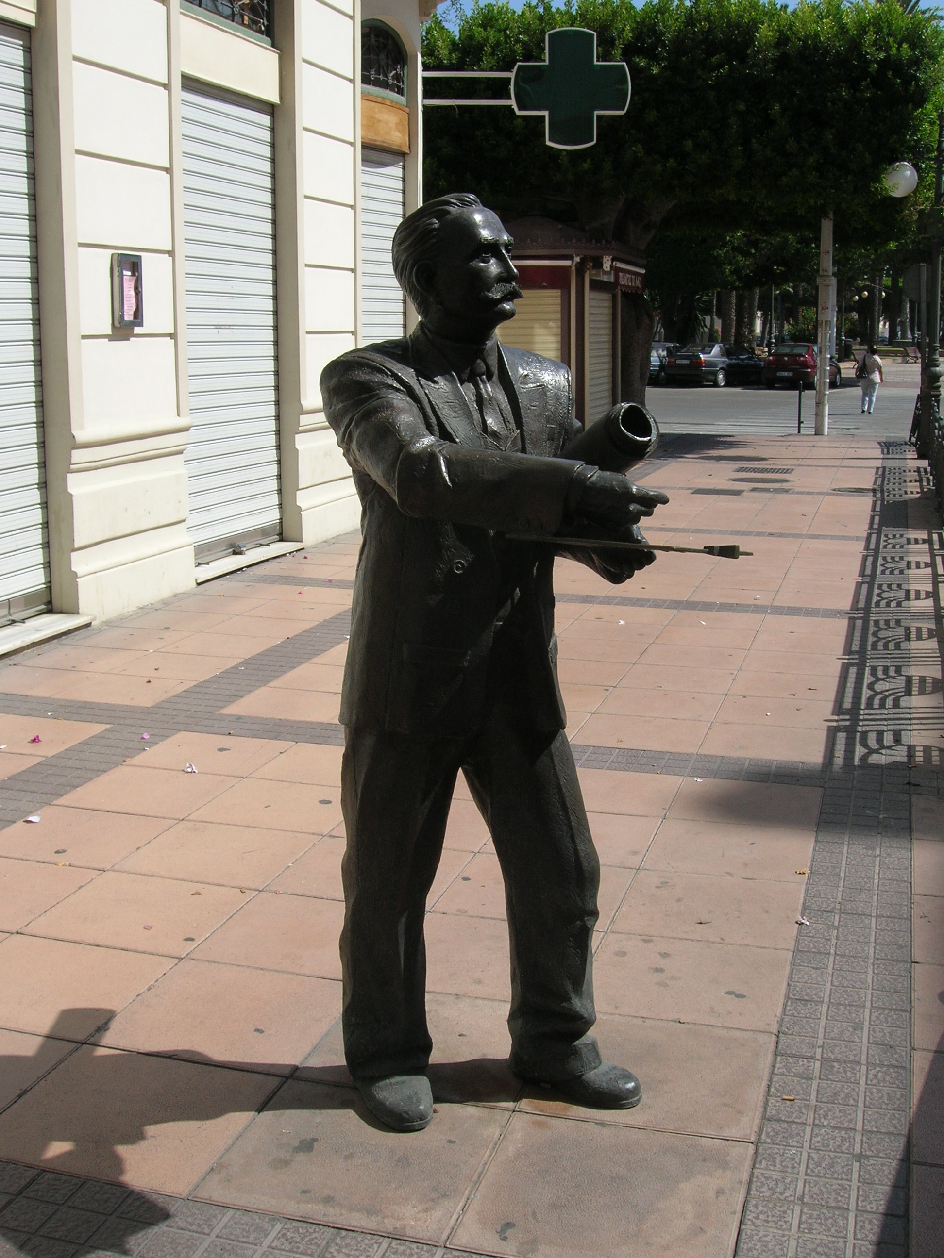 Statue of the Catalan architect Enrique Nieto in Melilla.